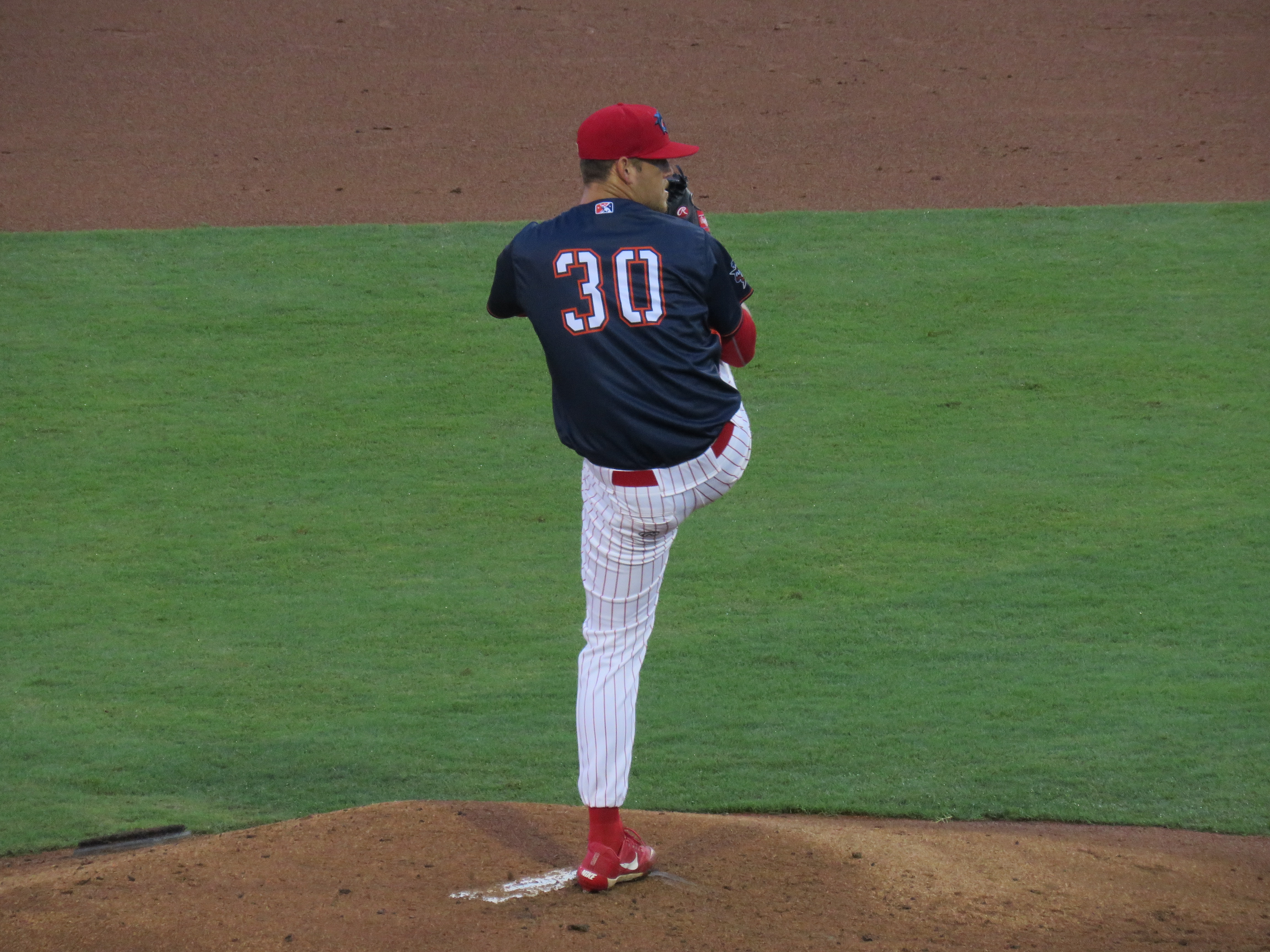 Cole Irvin pitching for the Clearwater Threshers in 2017